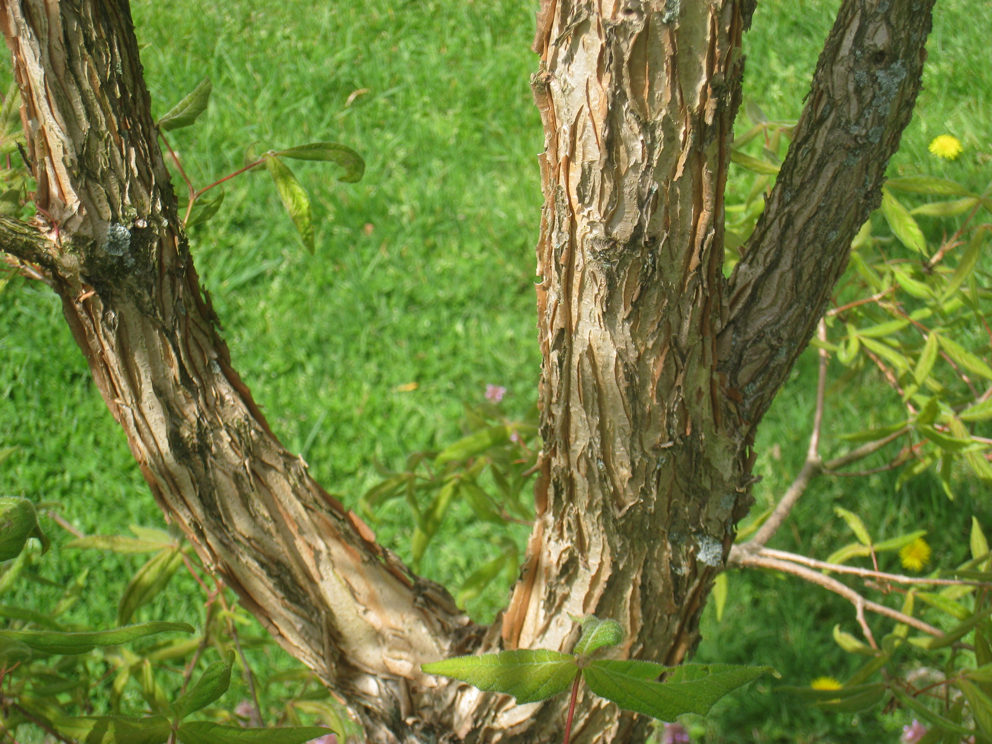 Acer triflorum, Arnold Arboretum, Jamaica Plain, Boston, Massachusetts, USA.